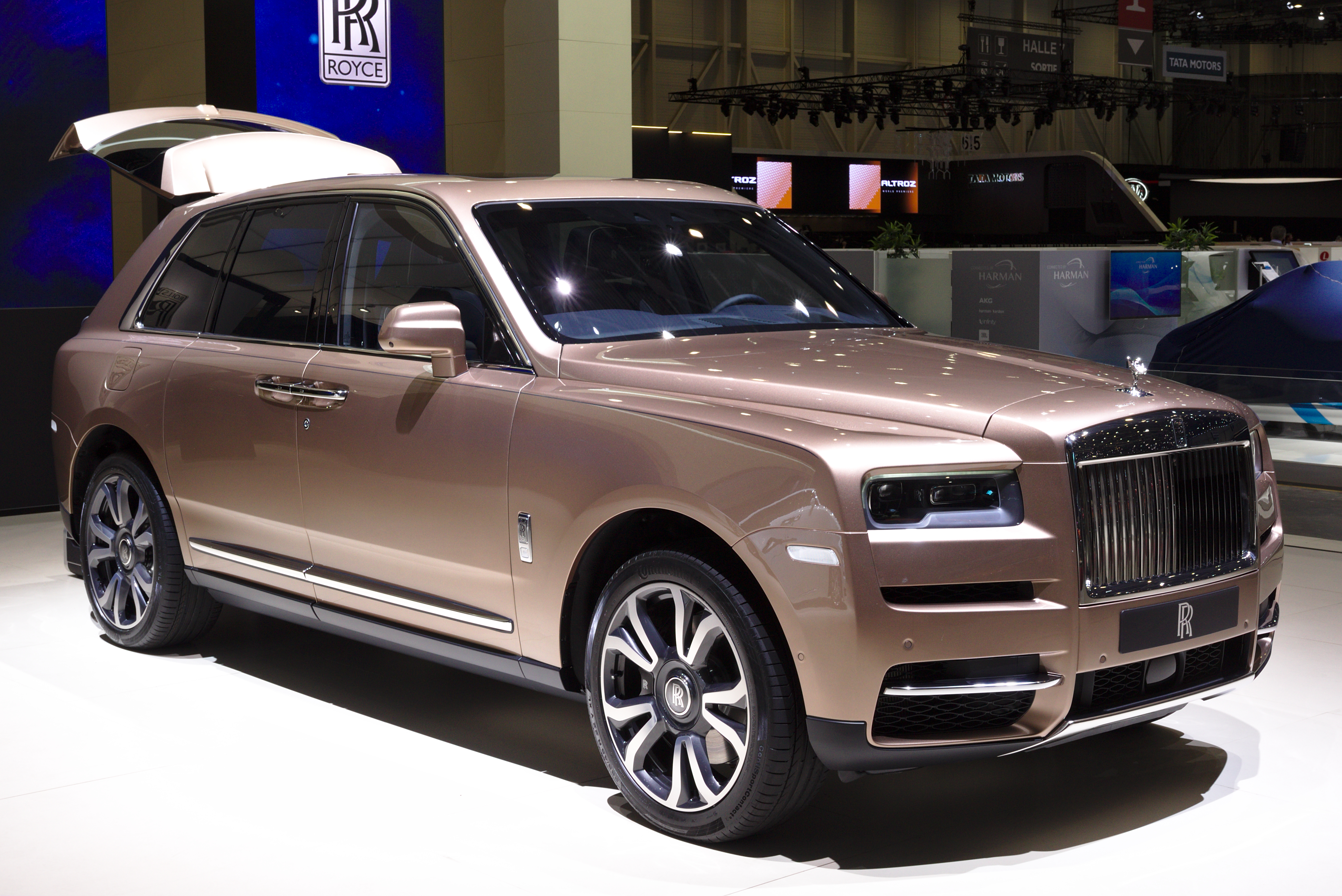 Rolls-Royce Cullinan at Geneva Motor Show 2019